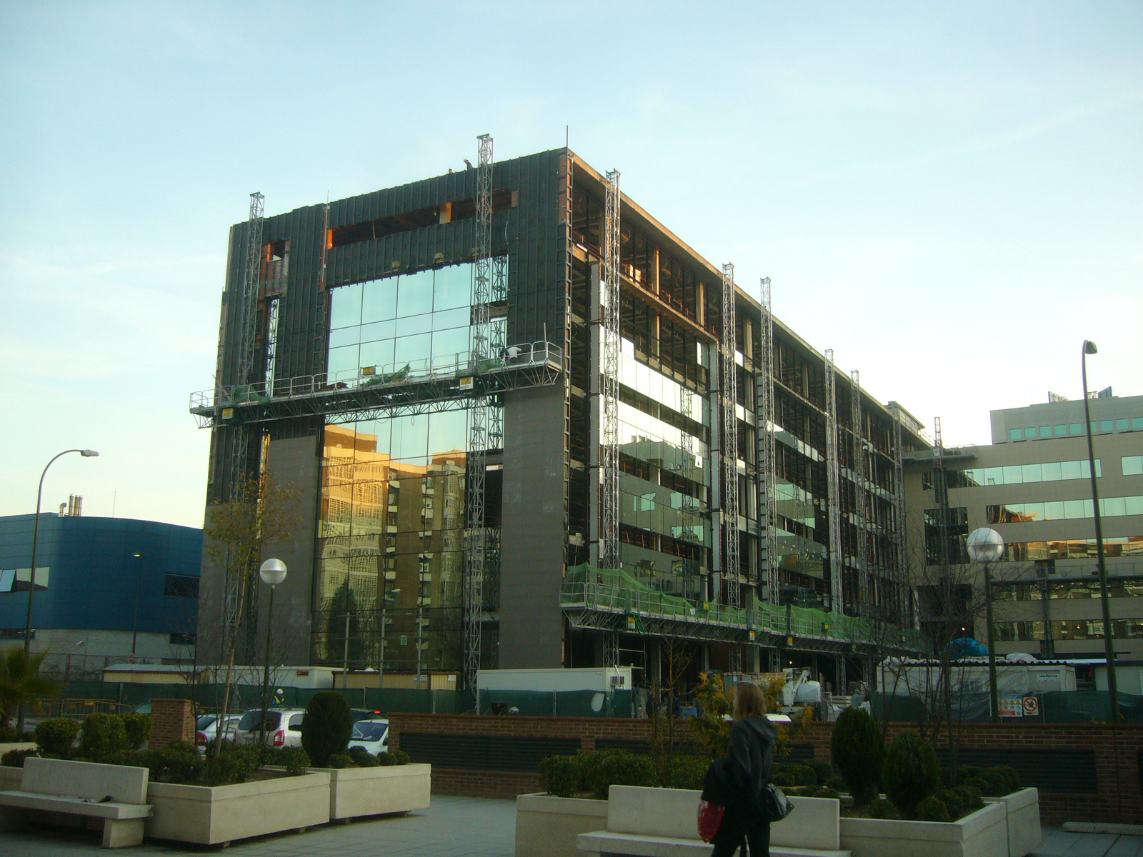 everis new headquarters in Madrid's neighborhood of Virgen del Cortijo. It is supposed to open in October 2008.